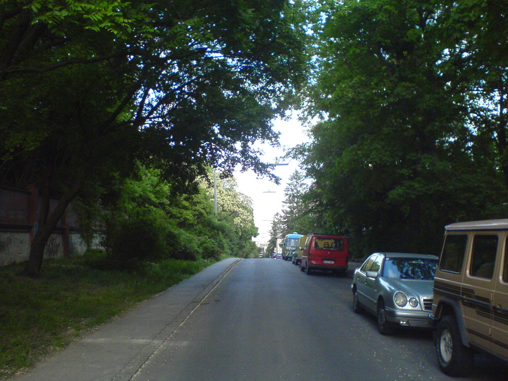 Vienna Edmund-Weiß-Gasse